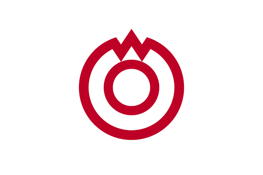 Flag of Yamaguchi, Yamaguchi